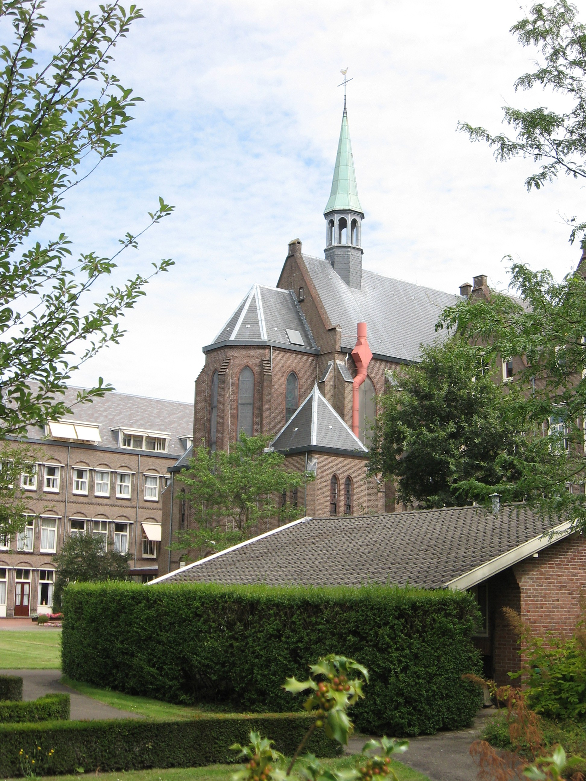 kapel Mariënburg